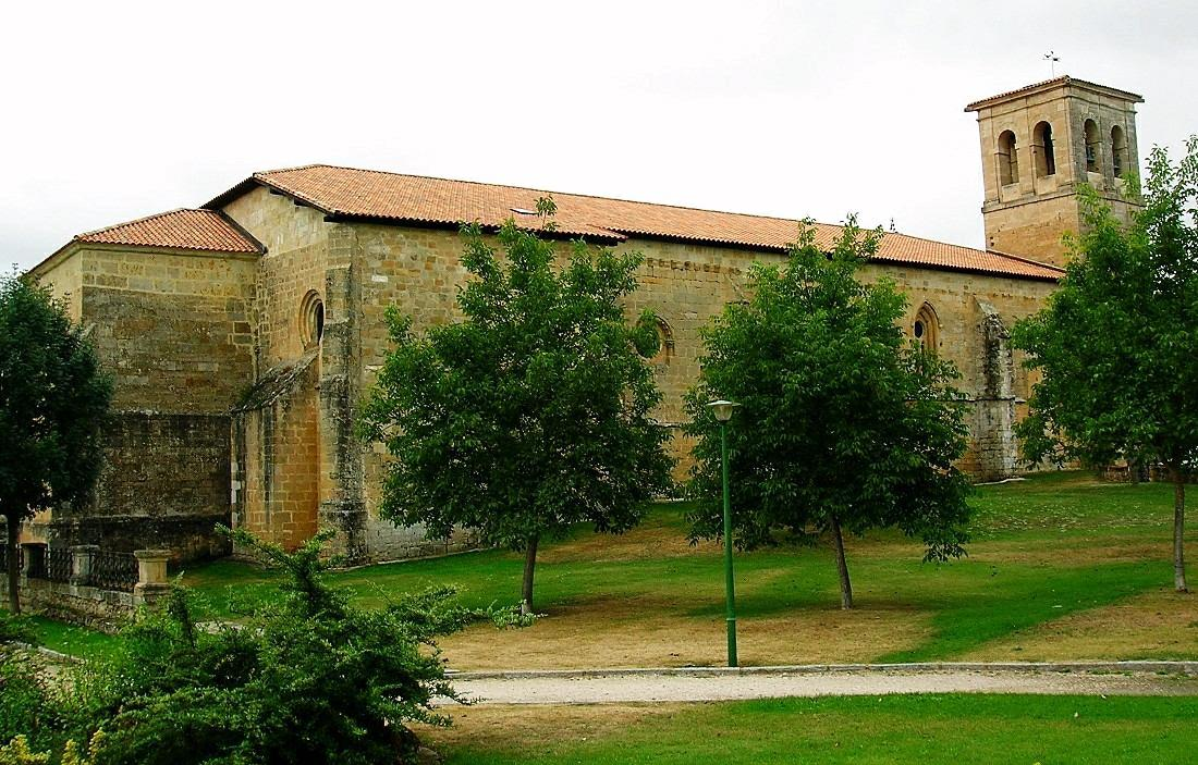 Santuario de Nuestra Señora del Salcinar y del Rosario, en Medina de Pomar (Burgos, Castilla y León, España)